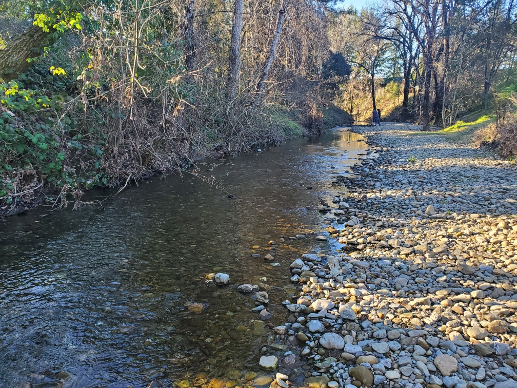 Orrs Creek after a few days of rain near the Veterans Community Garden on North Oak Street in Ukiah.